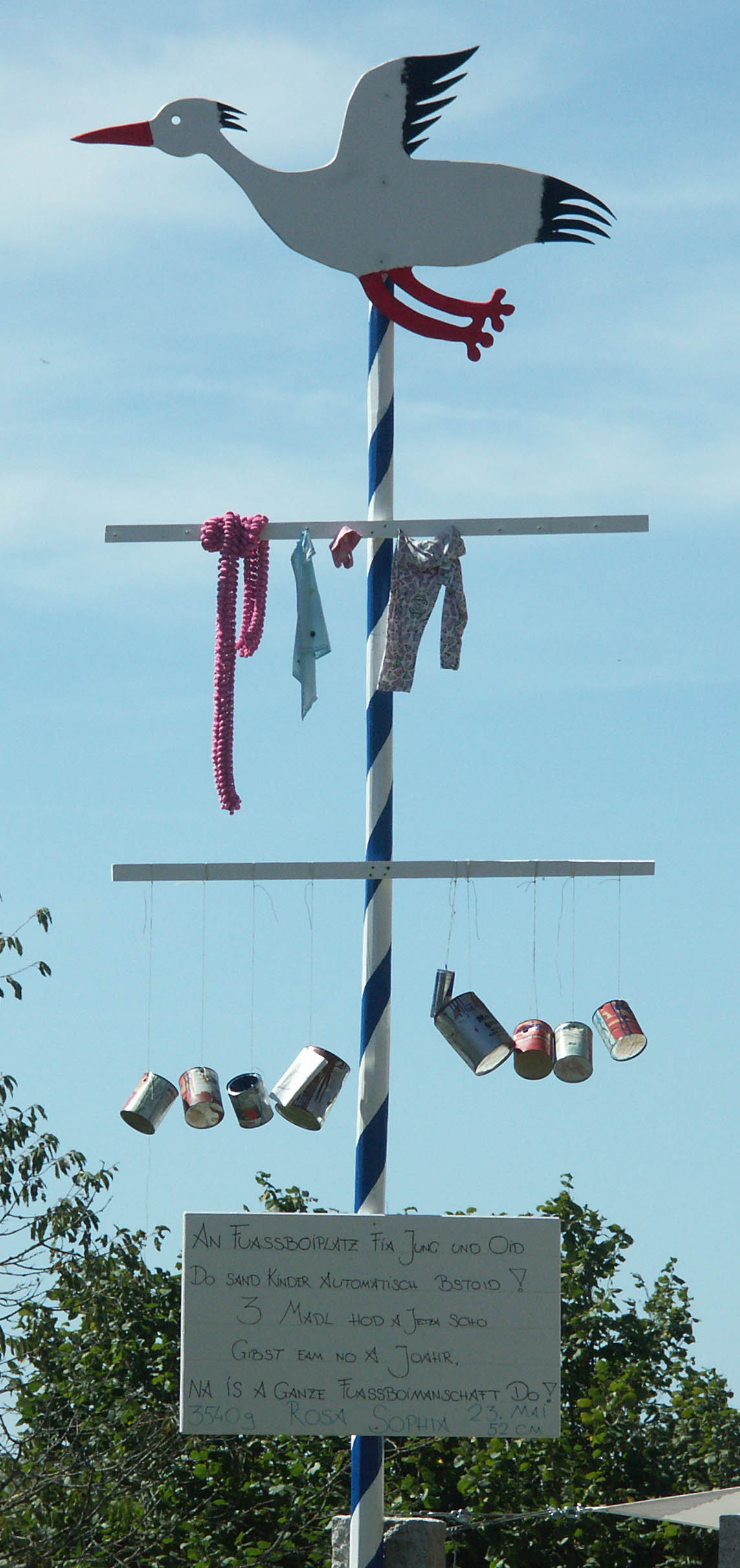 Germany (south) tradition wedding pole for baby wishes